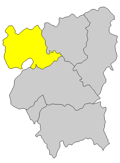 Location of Lianping County, Heyuan